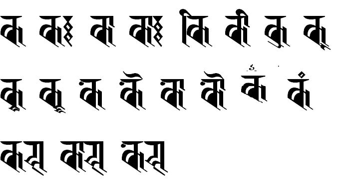 This is an example of Vowel diacritic of Ranjana script.